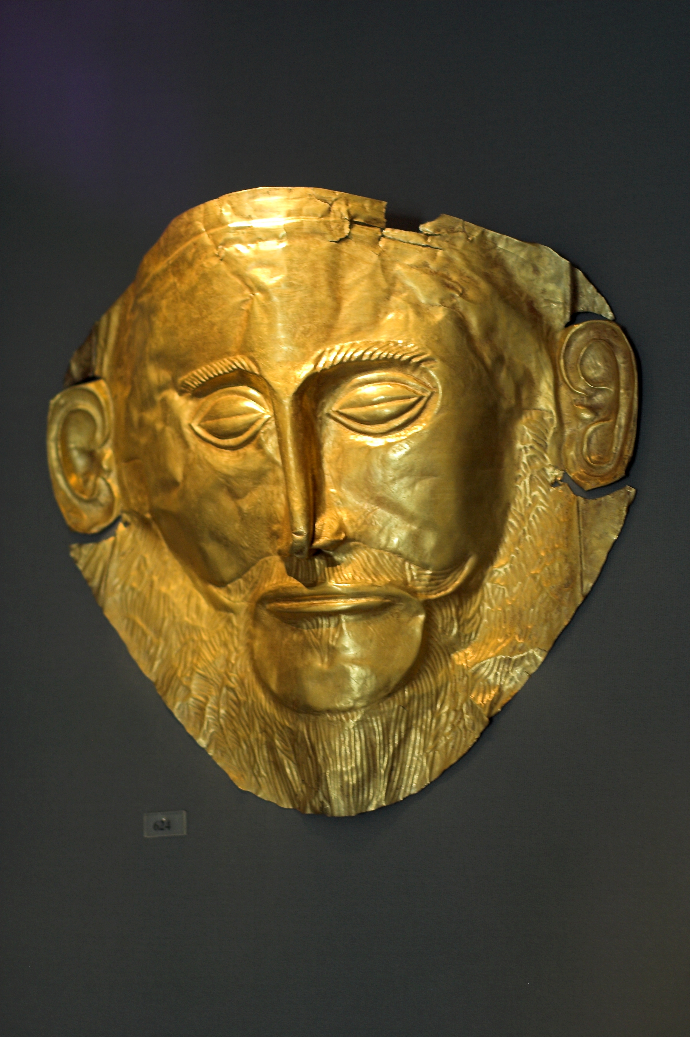 Funeral mask from Mycenae, Grave V in Grave Circle A. Gold plate. Schliemann believed that it is a mask of Agamemnon, but is older, from -16. century. National Archaeological Museum of Athens N 624.